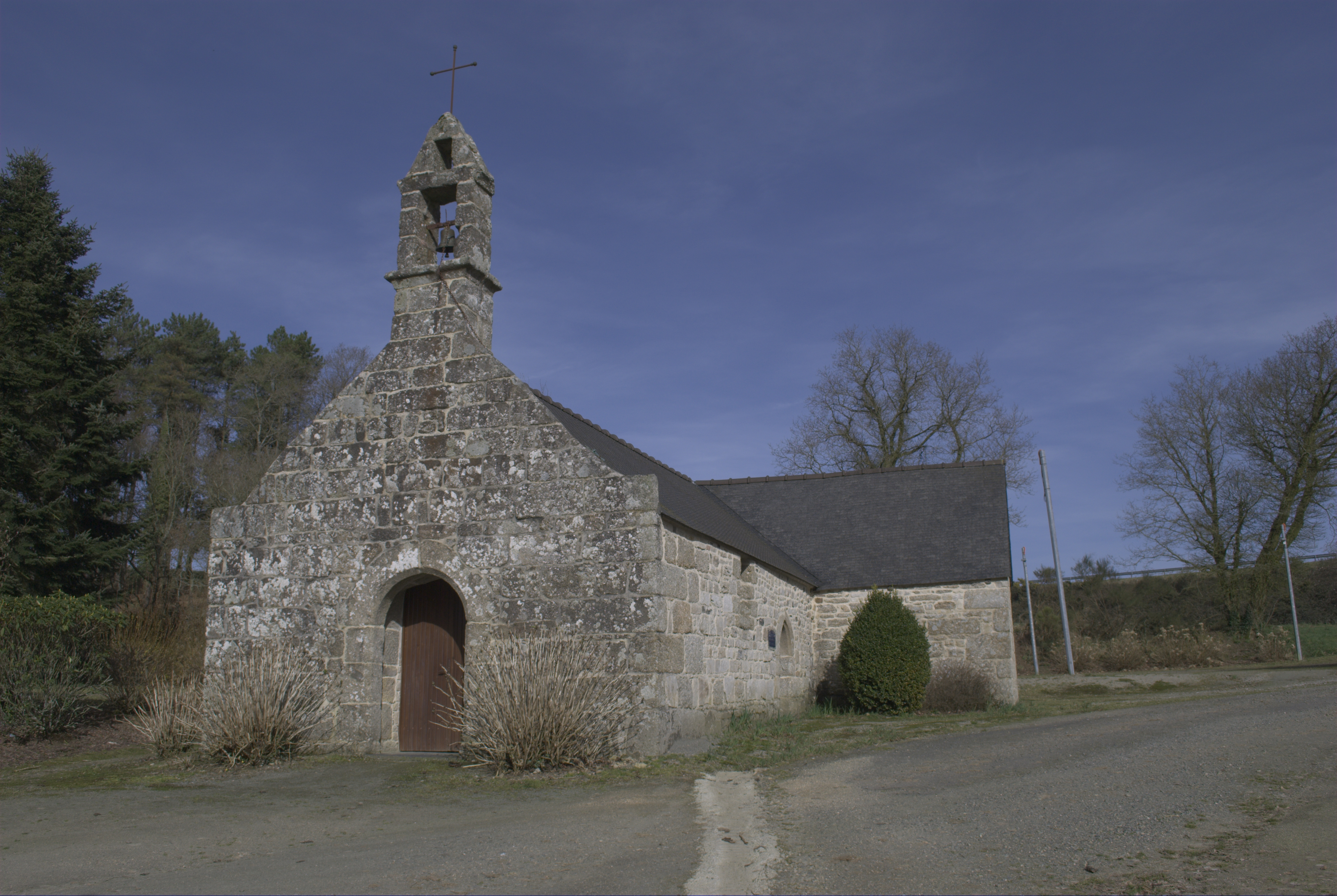 Chapel of Saint-Jean du Pénity in the village of Kerien(France).